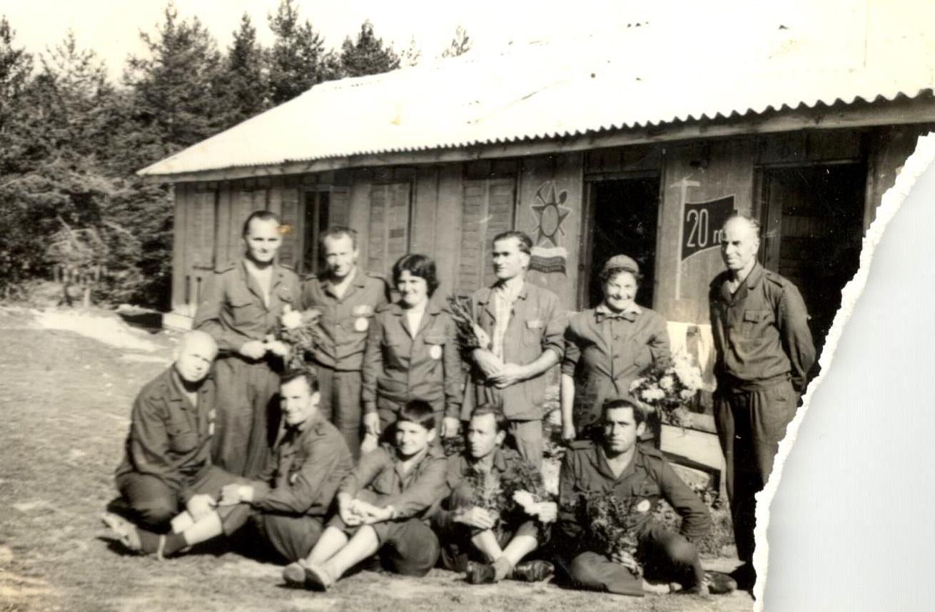 Voluntary labourers of the bulgarian "Brigadirsko dvizhenie" commemorating the 20th anniversary of their movement.